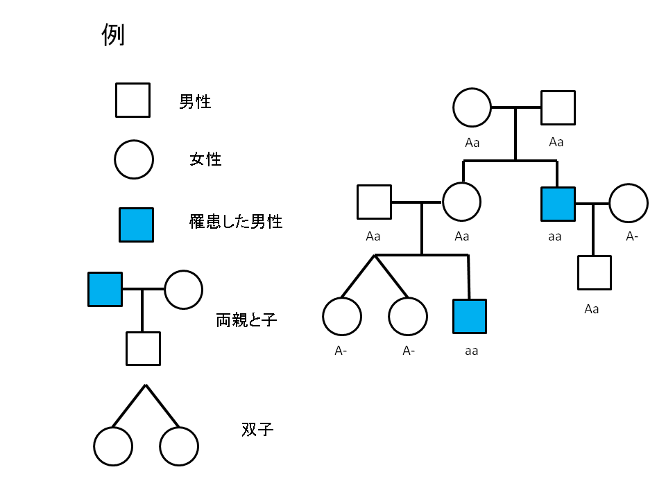 char of pedigree